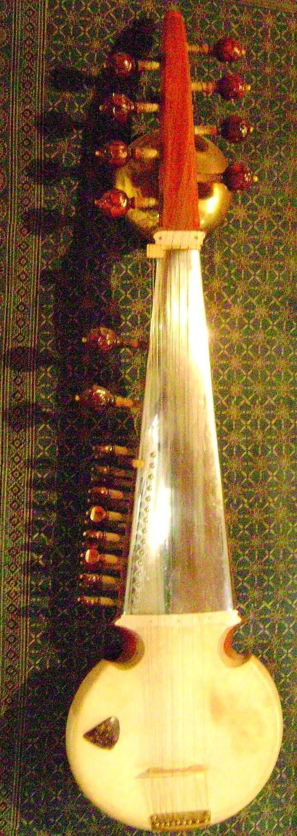 Sarod